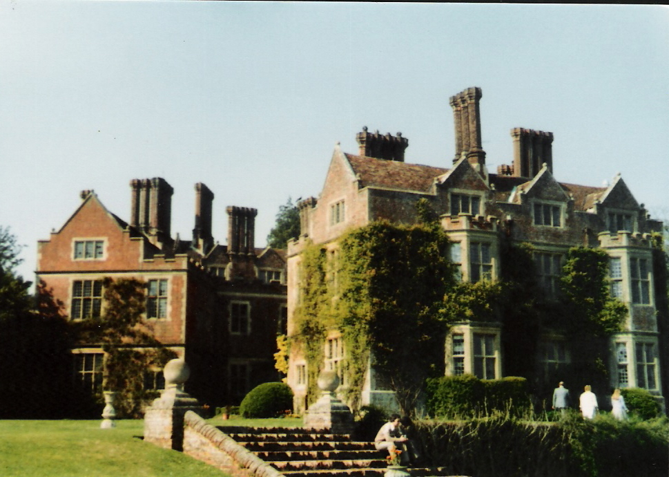 Side/rear view of Chilham Castle, late 1970s.